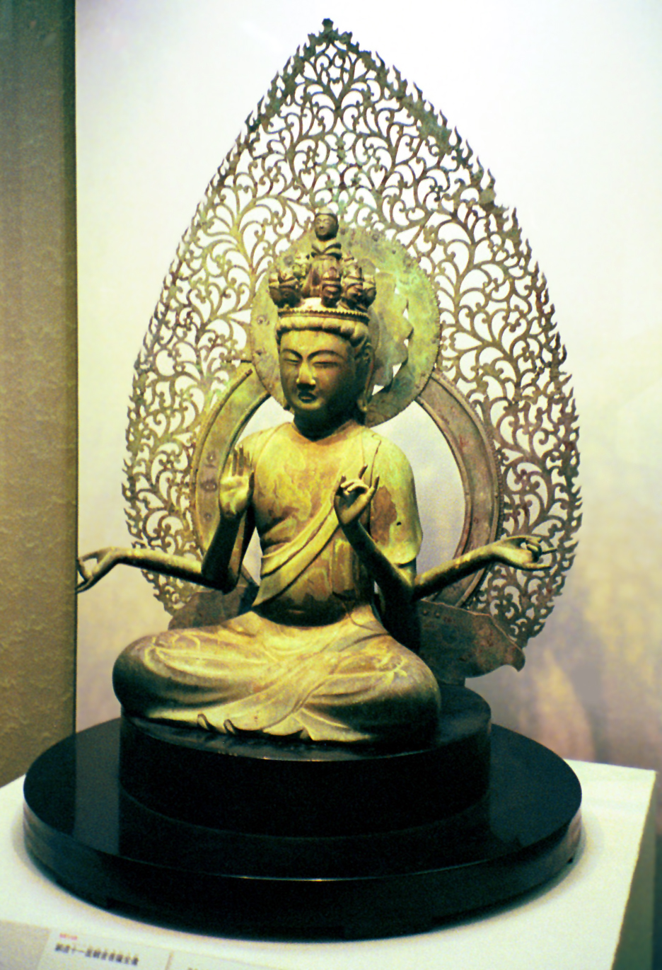 Four-Armed Kannon. 13th century from Komatsu-dera in Chiba. Displayed in Tokyo National Museum, Japan.